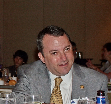 Virginia Delegate Adam Ebbin, 49th House District